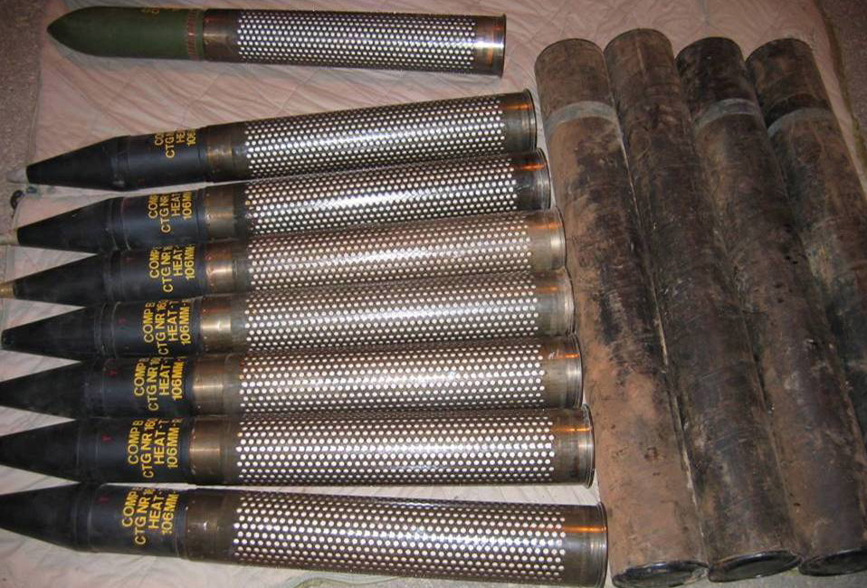 September 5, 2006 During a Golani Brigade operation in the Western Sector of Lebanon, Israeli forces uncovered weaponry, a tunnel system, and underground bunkers that were used by the terror organization Hezbollah. Pictured: Munitions found in the underground bunker.